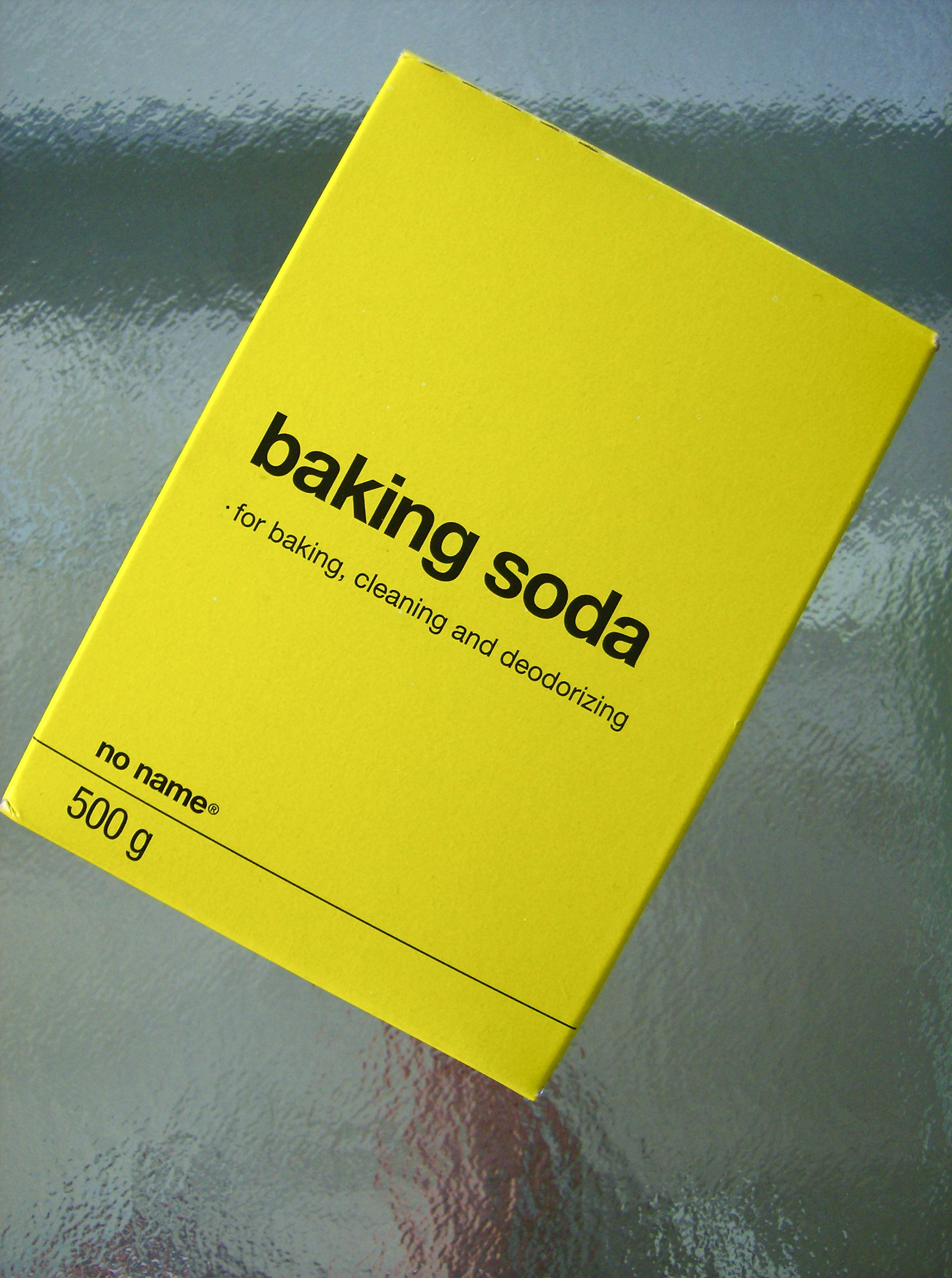 No name baking soda